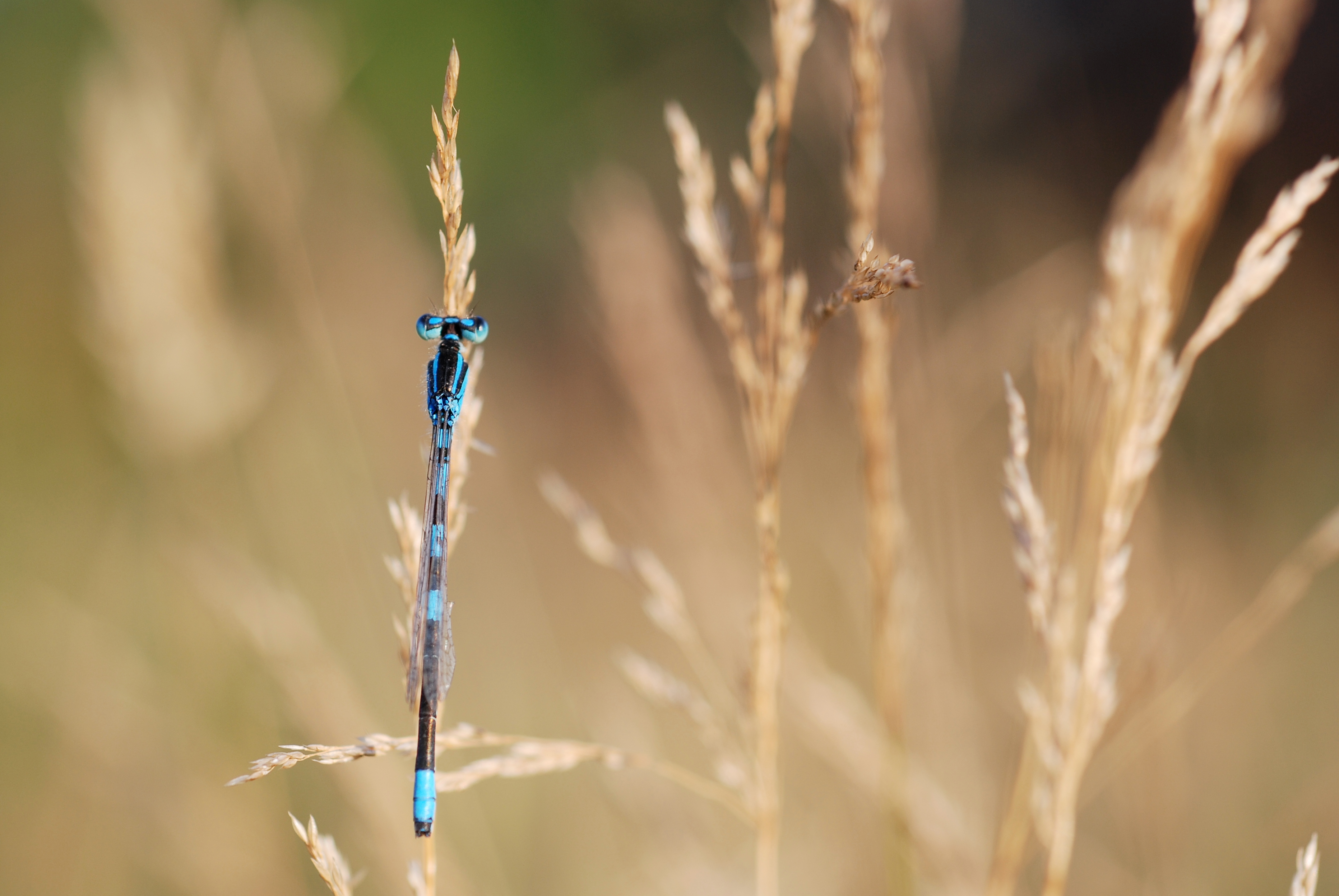 Dainty Damselfly Coenagrion scitulum